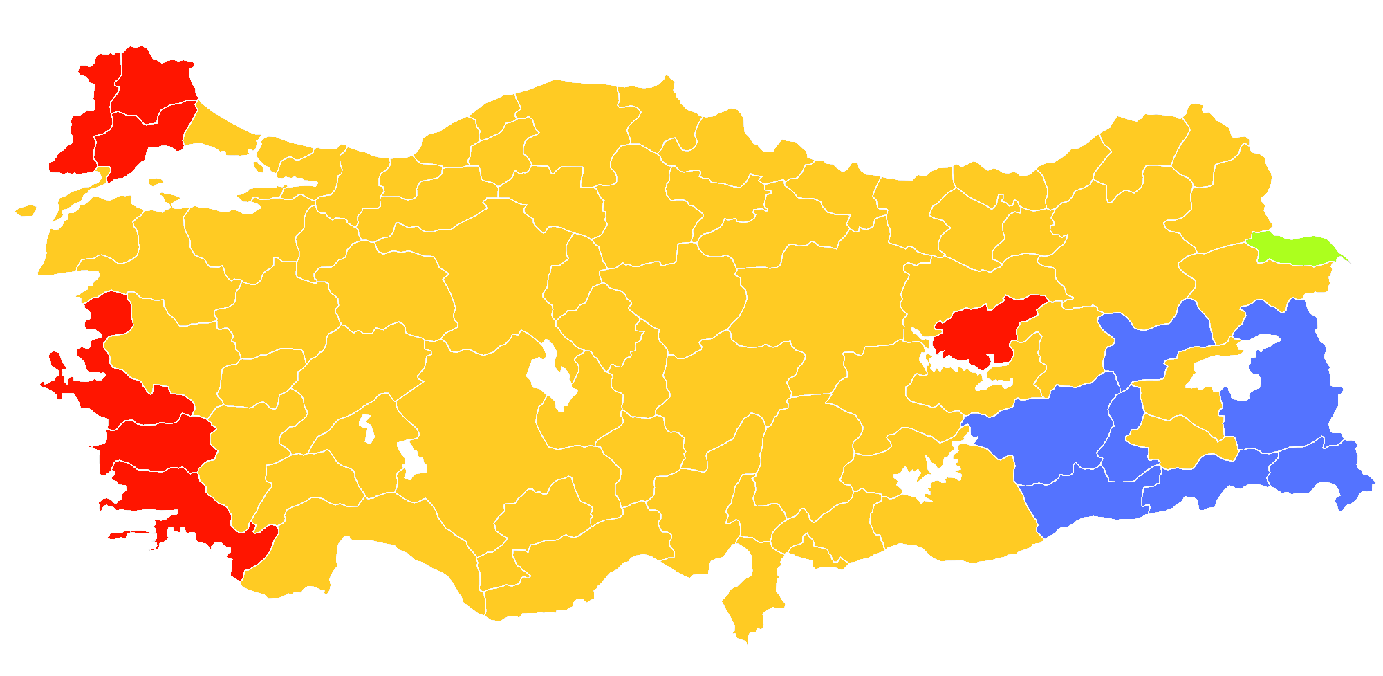 Results of the Turkish general election of 2011 by province. Justice and Development Party Republican People's Party Nationalist Movement Party Labor, Democracy and Freedom Bloc